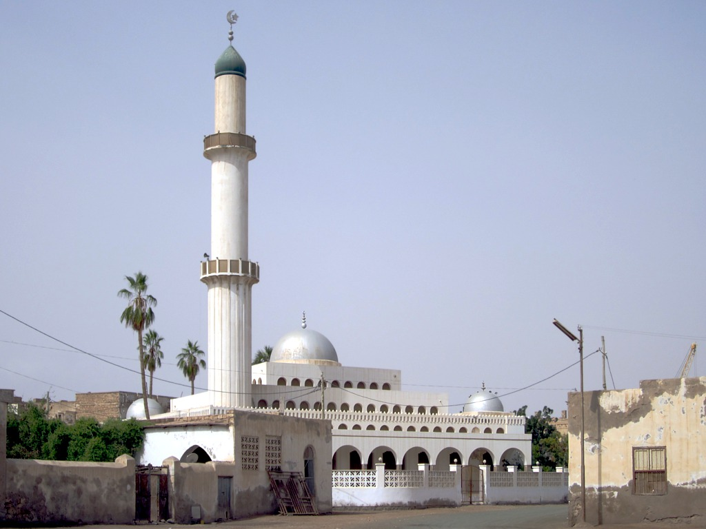 The 15th century Sheikh Hanafi Mosque stands on Piazza degli Incendi in the center of the old city of Massawa, Eritrea. The mosque was rebuilt after a fire in 1885, and again recently.